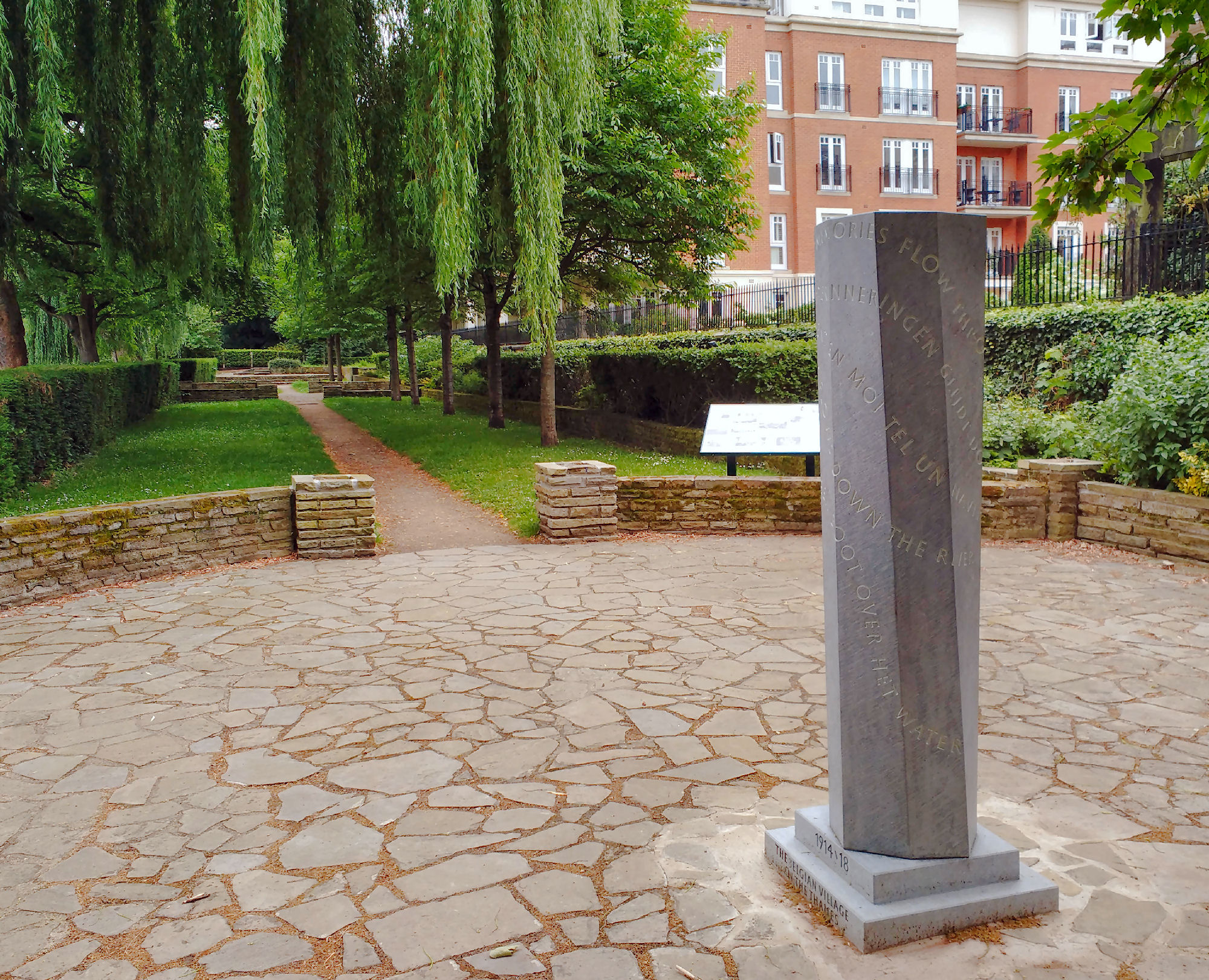 Memorial to ‘The Belgian Village on the Thames’, A memorial to the 6000 Belgian refugees who lived in St Margarets during WW1. Sited on the banks of the Thames at Warren Gardens, St. Margarets, London. Unveiled April 2017.